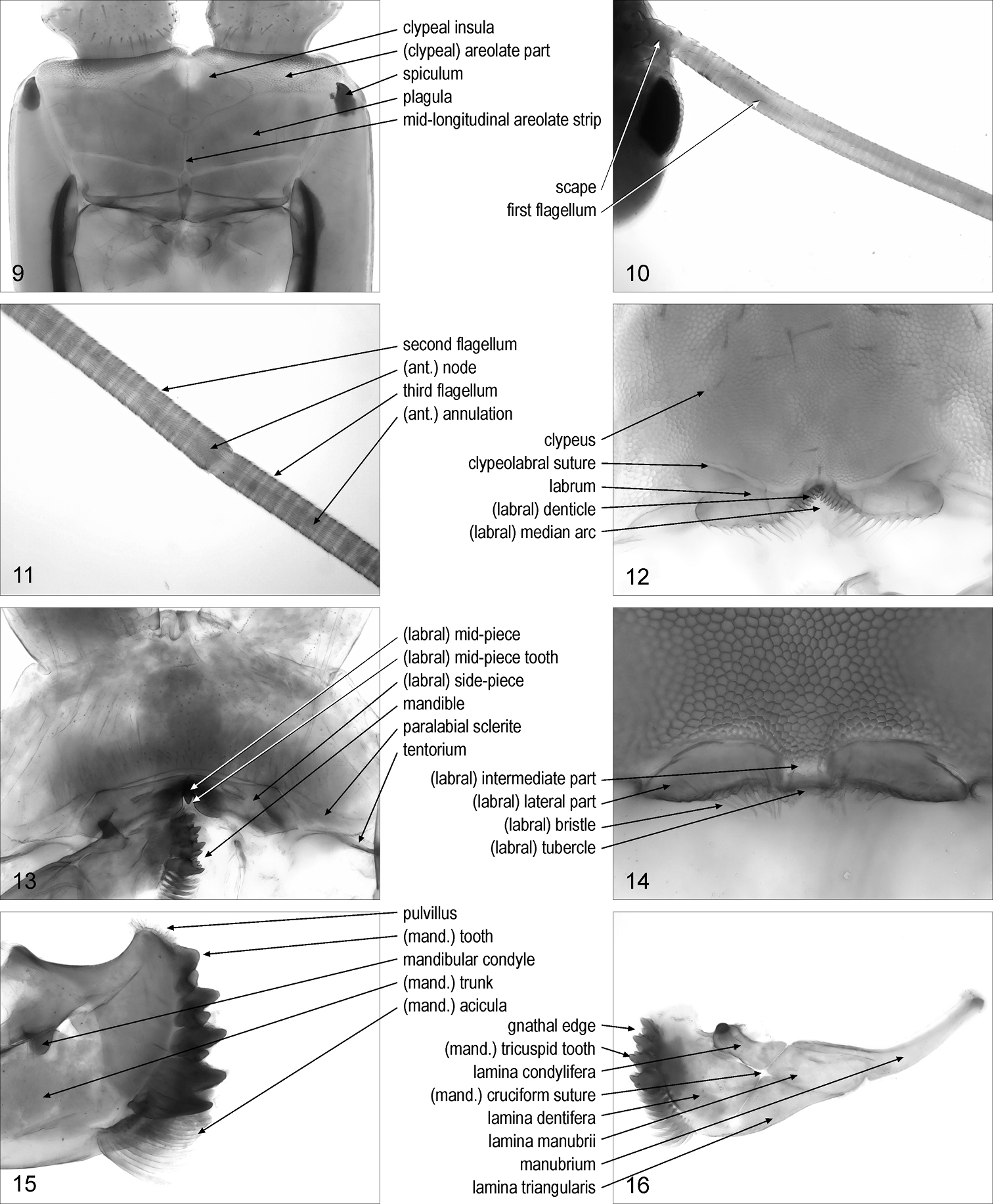 Figures 9–16. 9 anterior part of cephalic capsule, without maxillary complex and mandibles, ventral, Mecistocephalus togensis 10 basal part of right antenna, dorsal, Scutigera coleoptrata 11 intermediate part of the right antenna, dorsal, Scutigera coleoptrata 12 anterior part of cephalic capsule, without maxillary complex and mandibles, ventral, Pectiniunguis ducalis 13 anterior part of the cephalic capsule, without maxillary complex and left mandible, ventral, Scolopendra oraniensis 14 labrum, ventral, Ribautia centralis 15 distal part of right mandible, antero-dorsal, Lithobius dentatus 16 left mandible, antero-dorsal, Scolopendra oraniensis. Abbreviations: ant., antennal; mand., mandibular.